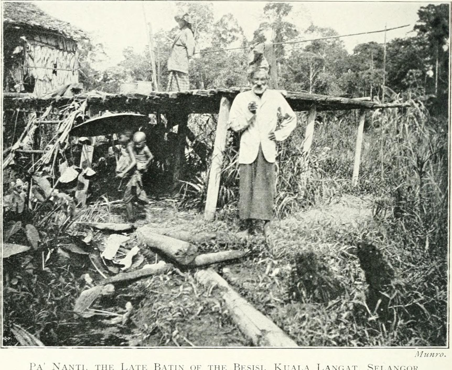 Title: Pagan races of the Malay Peninsula Year: 1906 (1900s) Authors: Skeat, Walter William, 1866- Blagden, Charles Otto, 1864-1949 Subjects: Ethnology -- Malay Peninsula Malays (Asian people) Malay Peninsula -- Social life and customs Malay Peninsula -- Religion Malay Peninsula -- Aboriginal dialects Publisher: London : Macmillan and Co., limited (etc., etc.) Text Appearing Before Image: iism^^^s^^mm^s^ Skt-at Collection. Strange Wooden Dance-Wand carried bv Besisi Man at Ceremonial Dances. lieneath it is a flute, and also a noie-flute, used on similar occasions.(See p. 145.) Iol. II. p. 146. Text Appearing After Image: A Xami, thk Laie Bati.n of the Besisi, Kuala Lamjat, Seeangok. It was from this Jakun chief (here shown in full Malay dress) that I took down most of theHesisi Jimt;le Songs given in the text. To/. //. /. 147. SA VAGE MALA YS OF SELANGOR M7 The followingthe Lang, which have no ascertained order, exceptalways comes last :— II. Bio. The coconut-monkey. 12. Liikah. The lish-lrap. Ij- Rimau. The liger. 14. Gajab. The elejihant. 15- Bertam tcnung. The solitary l)ertam-pahn. 16. Katak rengkong. The toad. 17. Badak. The rhinoceros. 18. Kijang. The roe-deer. 19- Baning. The tortoise. 20. Ular sawa. The python. 21. Kanchil. The chevrotin. 22. Plandok. The chevrotin (another species), 23- Buaya. The crocodile. 24. Rusa. The sambhur deer. 25- Babi utan. The wild pig. 26. Ungka. The ape. 27. Ayam hutan. The jungle-fowl. 28. Biawak. The lace-lizard or monitor. 29. Bruang. The l)ear. 30. Lang. The kite. Other alleged .songs, whose names were given butthe words of which were not given me, are— B